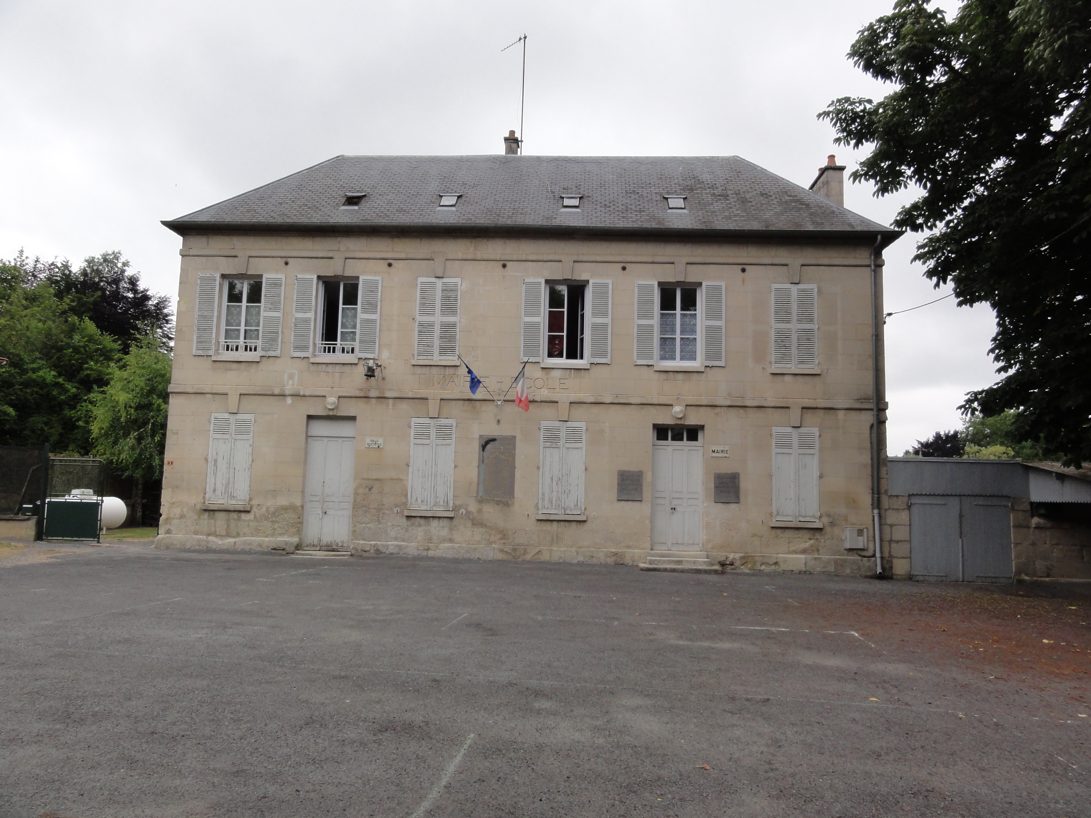 Rozières-sur-Crise (Aisne) mairie